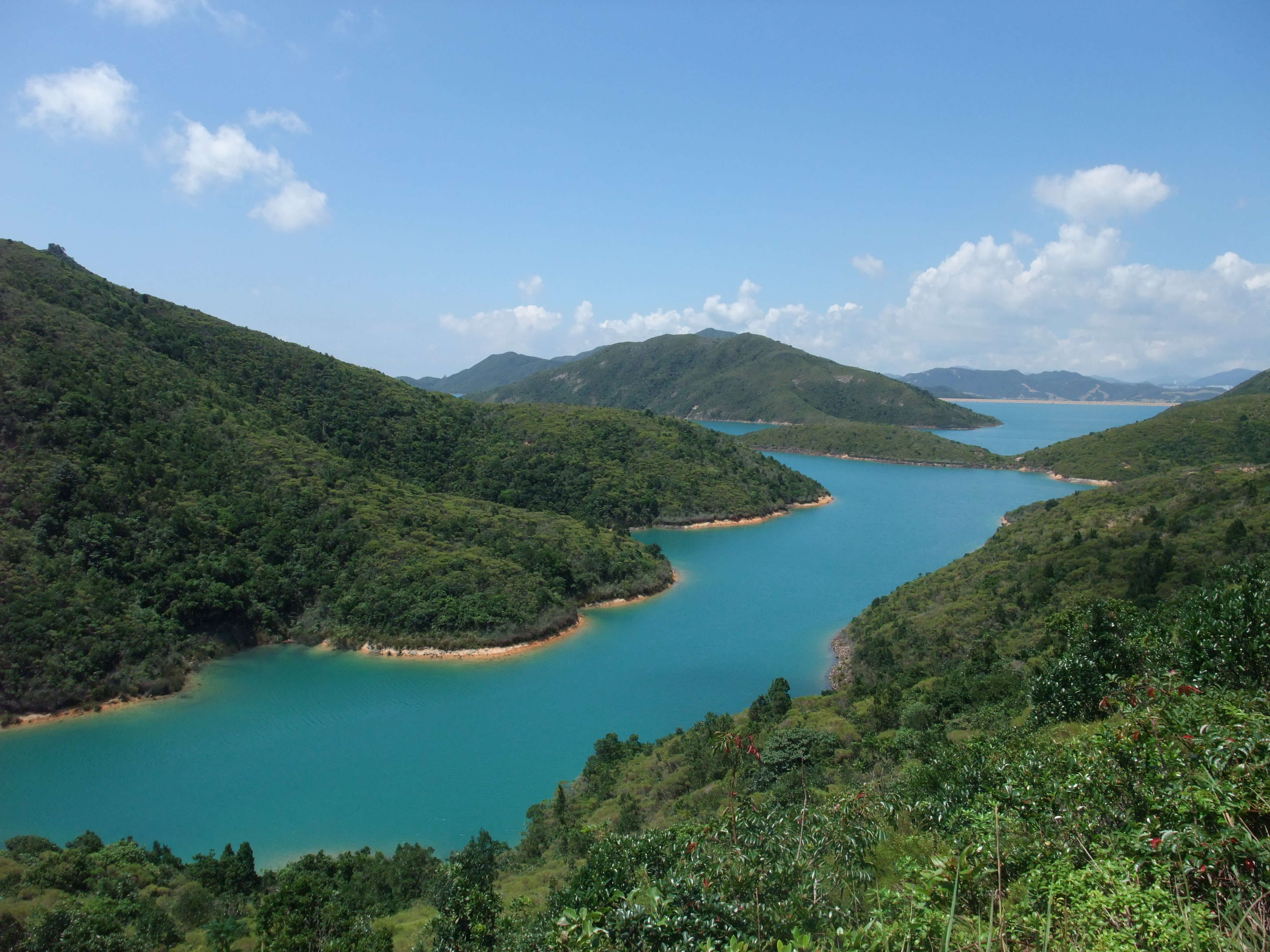 Photo of High Island Reservoir